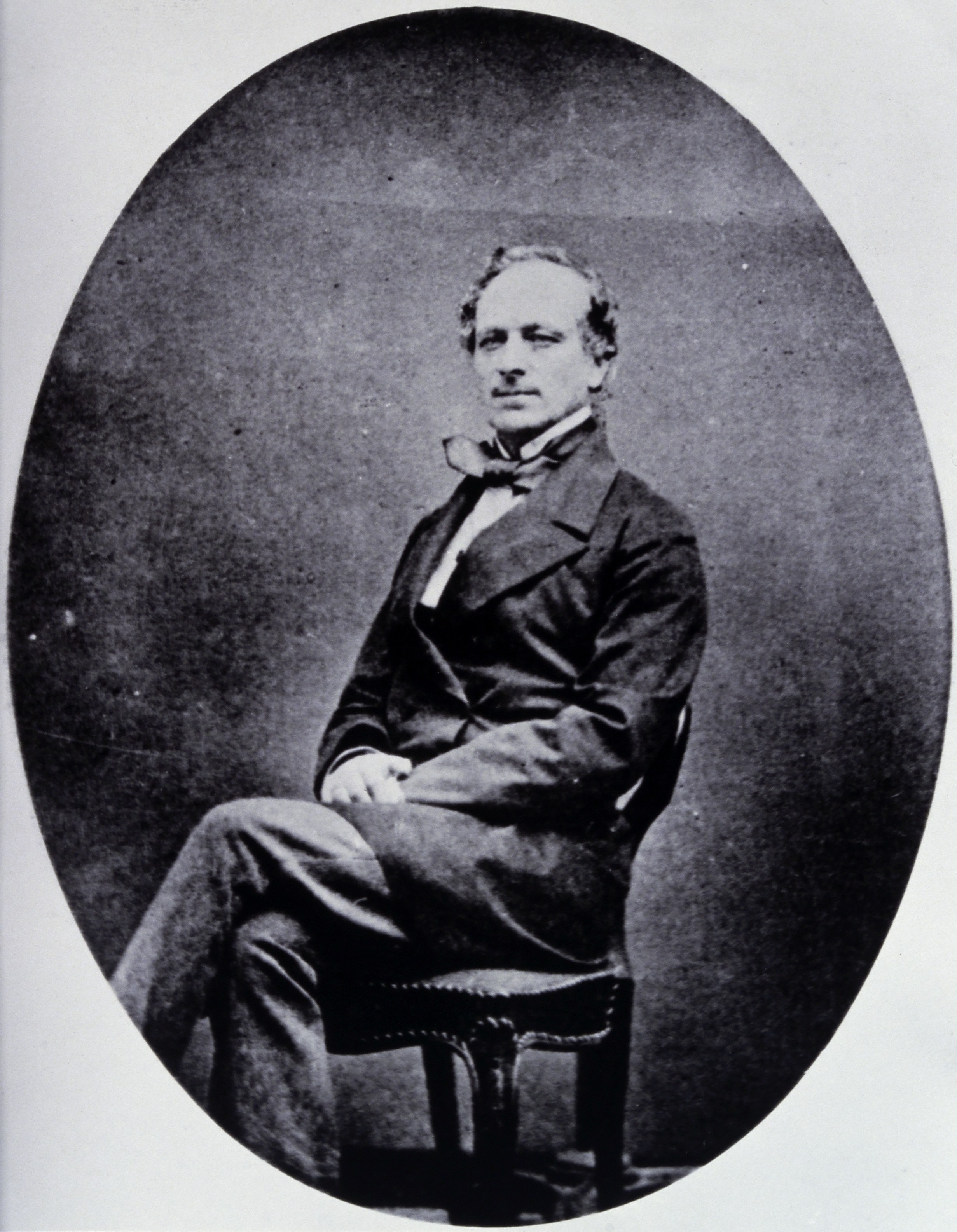 Francis Rynd. Photograph. Iconographic Collections Keywords: portrait photographs